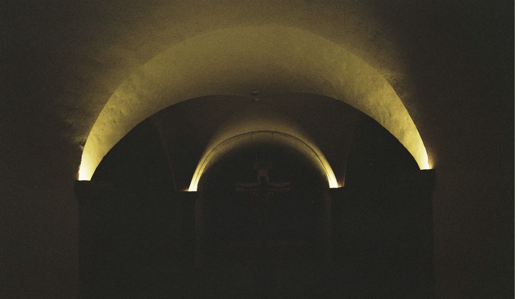 "THE LIGHT", a Dan Pero Manescu (Q-ART) analog photography, Heidelberg, Germany